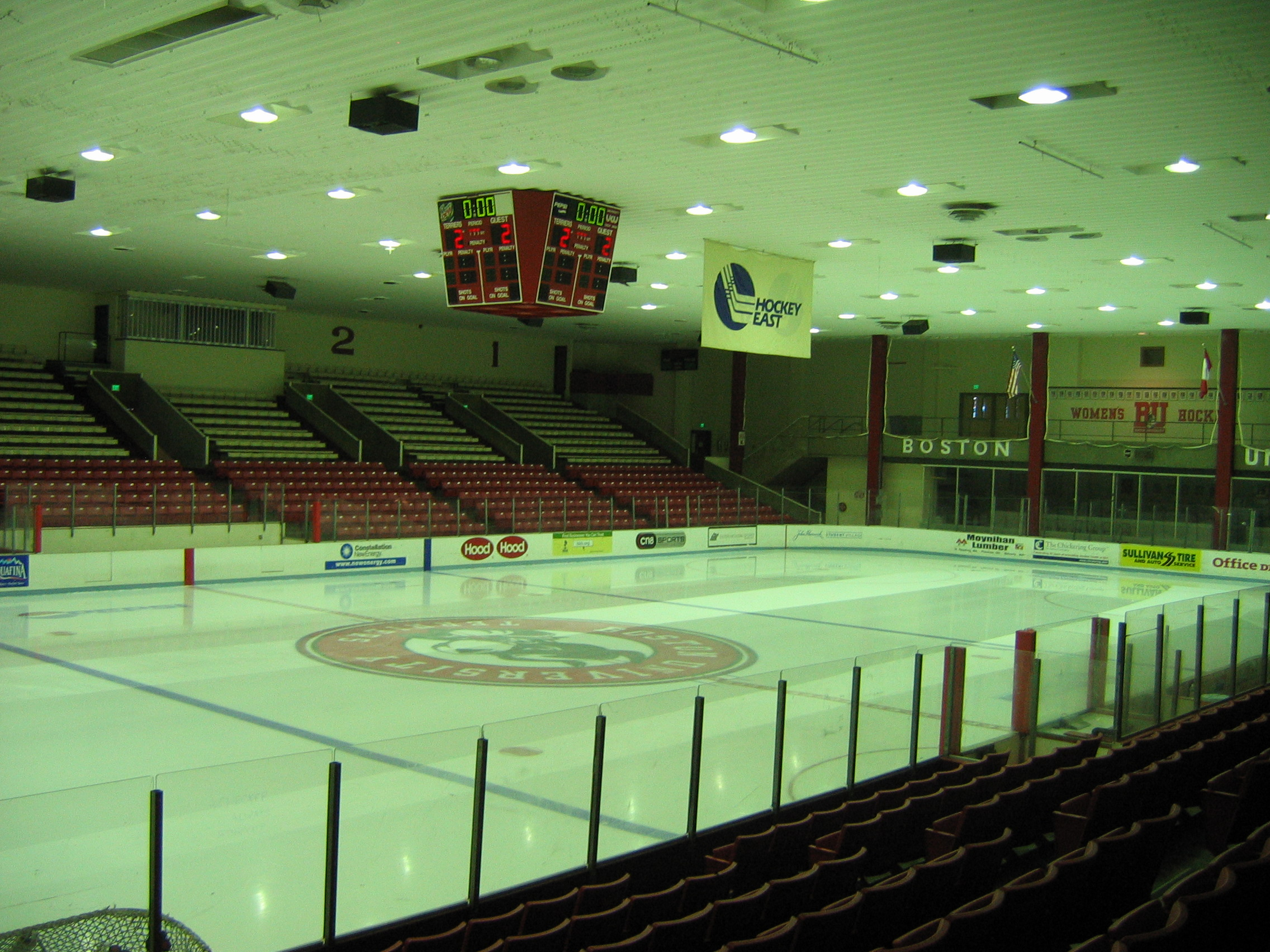 Football & Basketball Facilities Boston U Hockey Arena